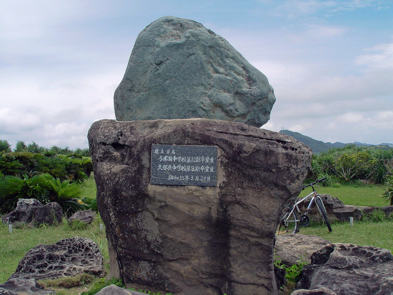 Yonaguni The stele of west end of Japan.